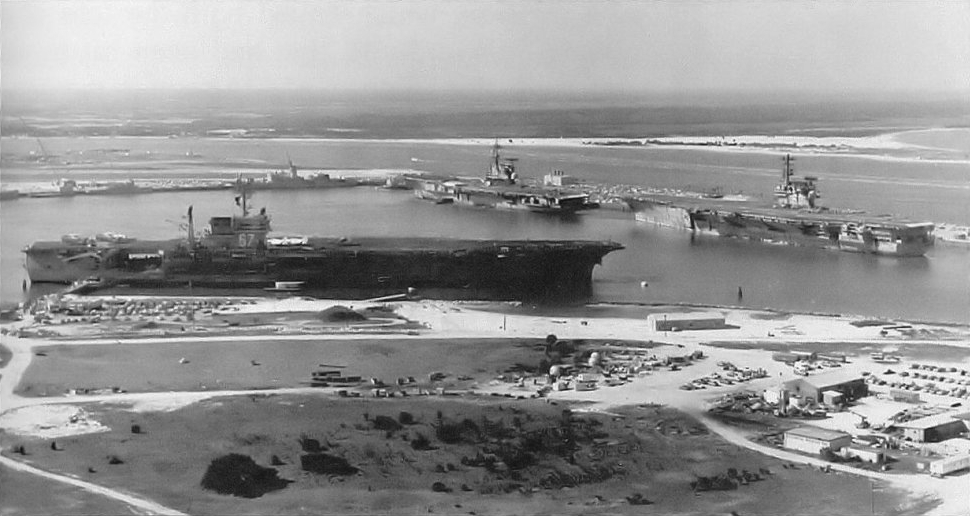 The U.S. Navy aircraft carriers USS John F. Kennedy (CVA-67), USS Saratoga (CVA-60), right, and USS Franklin D. Roosevelt (CVA-42), center background, at Naval Station Mayport, Florida (USA), on 20 February 1973.